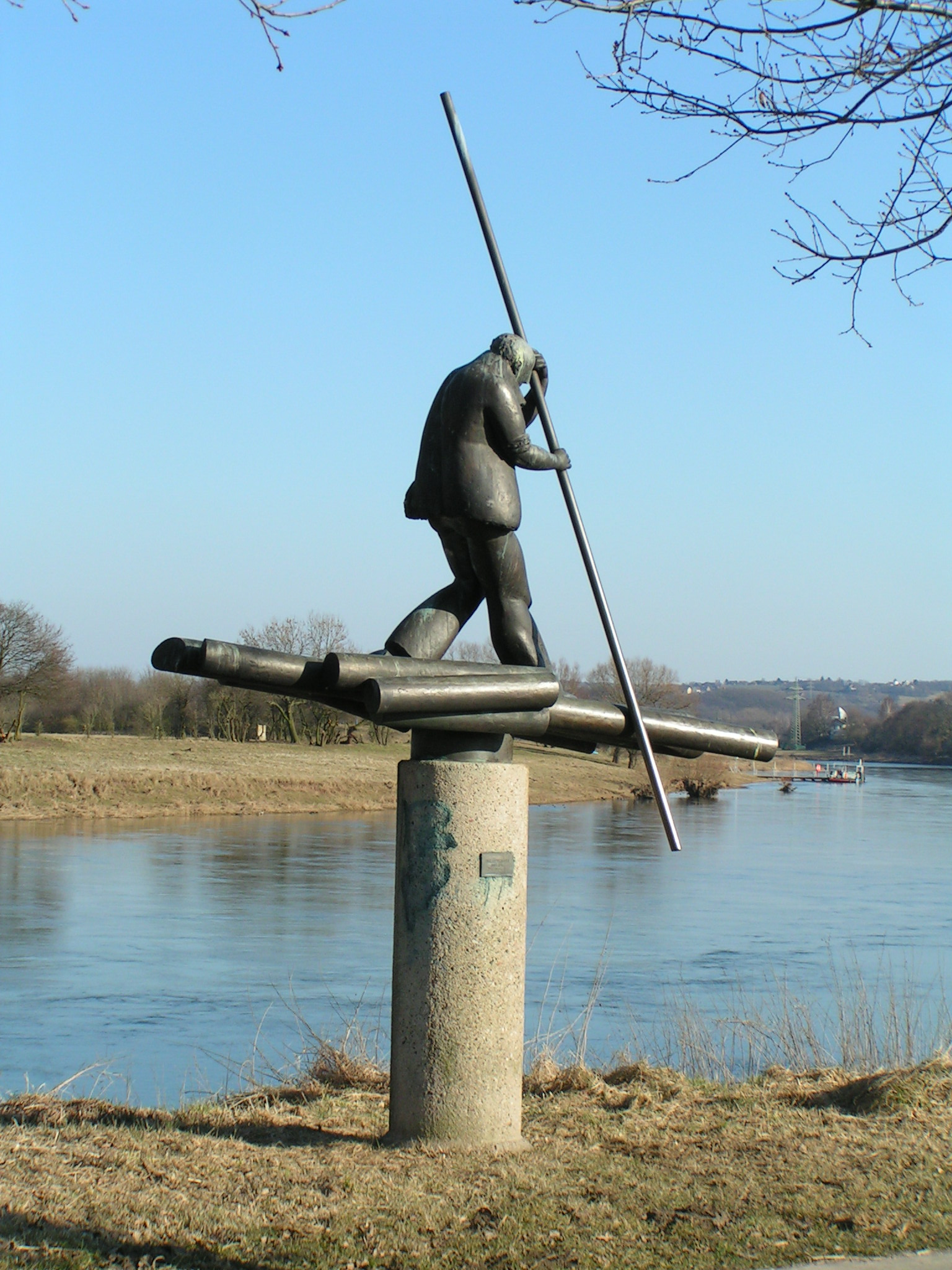 Timber raftsmen memorial at the Weser River near Bad Oeynhausen, District of Minden-Lübbecke, North Rhine-Westphalia.